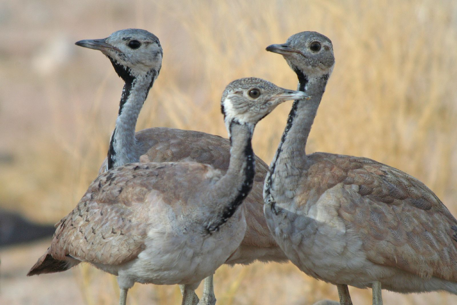 Rueppell's Bustard (Eupodotis rueppellii) from the veranda of the Namib Naukluft Lodge, Sossusvlei, Namibia. They put out kitchen scraps every afternoon and this family have been coming for about five years.